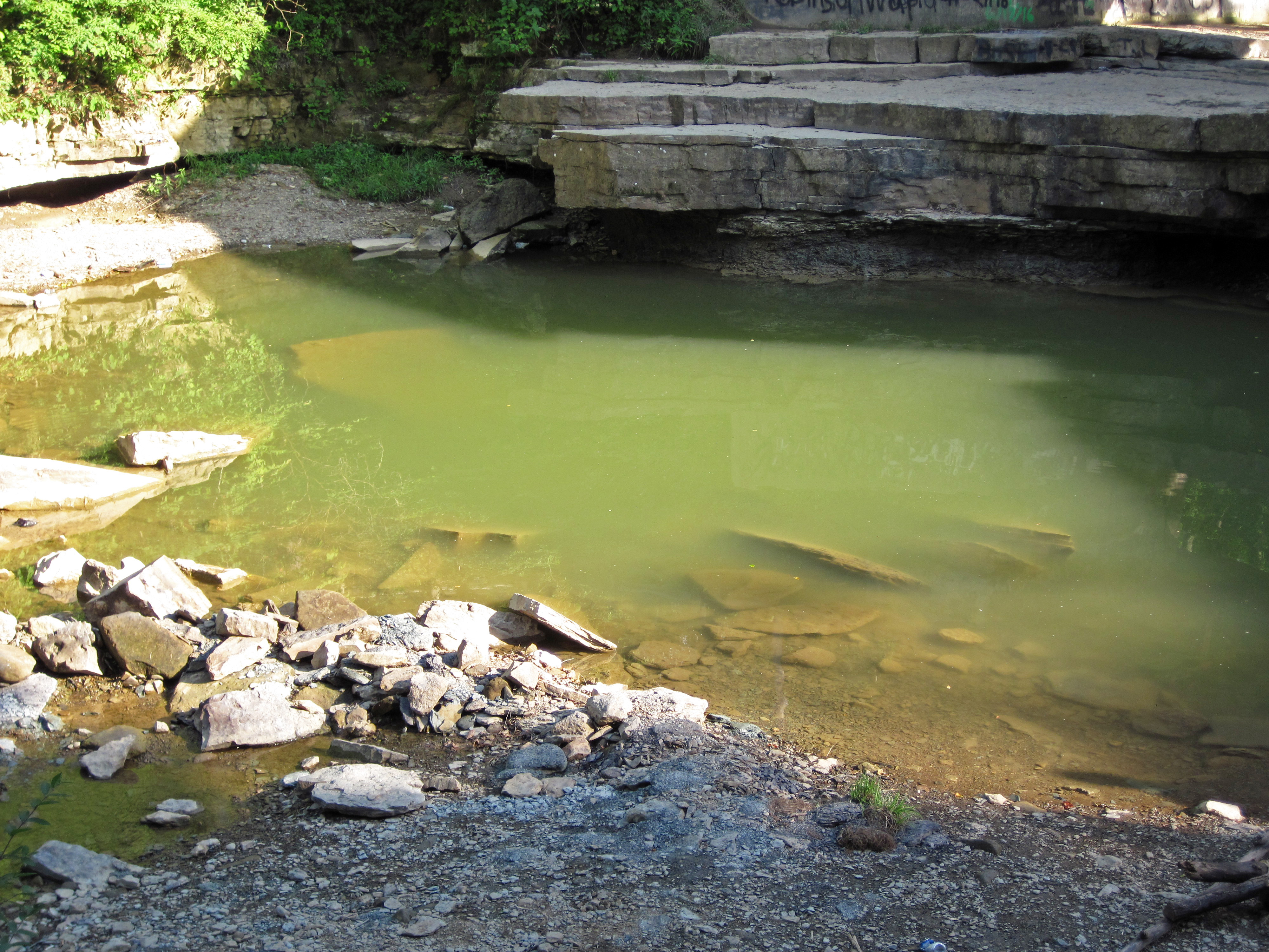 (downstream is to the lower left) The outcrop near the top of the photo consists of cherty limestones of the Brush Creek Limestone (Glenshaw Formation, lower Conemaugh Group, Missourian Series, lower Upper Pennsylvanian). The rocks in the shadows just above water level are mudshales. Locality: Island Run (at low flow), just downstream from Helmick Bridge (Helmic Bridge), southwest of the town of Eagleport, northwestern Morgan County, eastern Ohio, USA